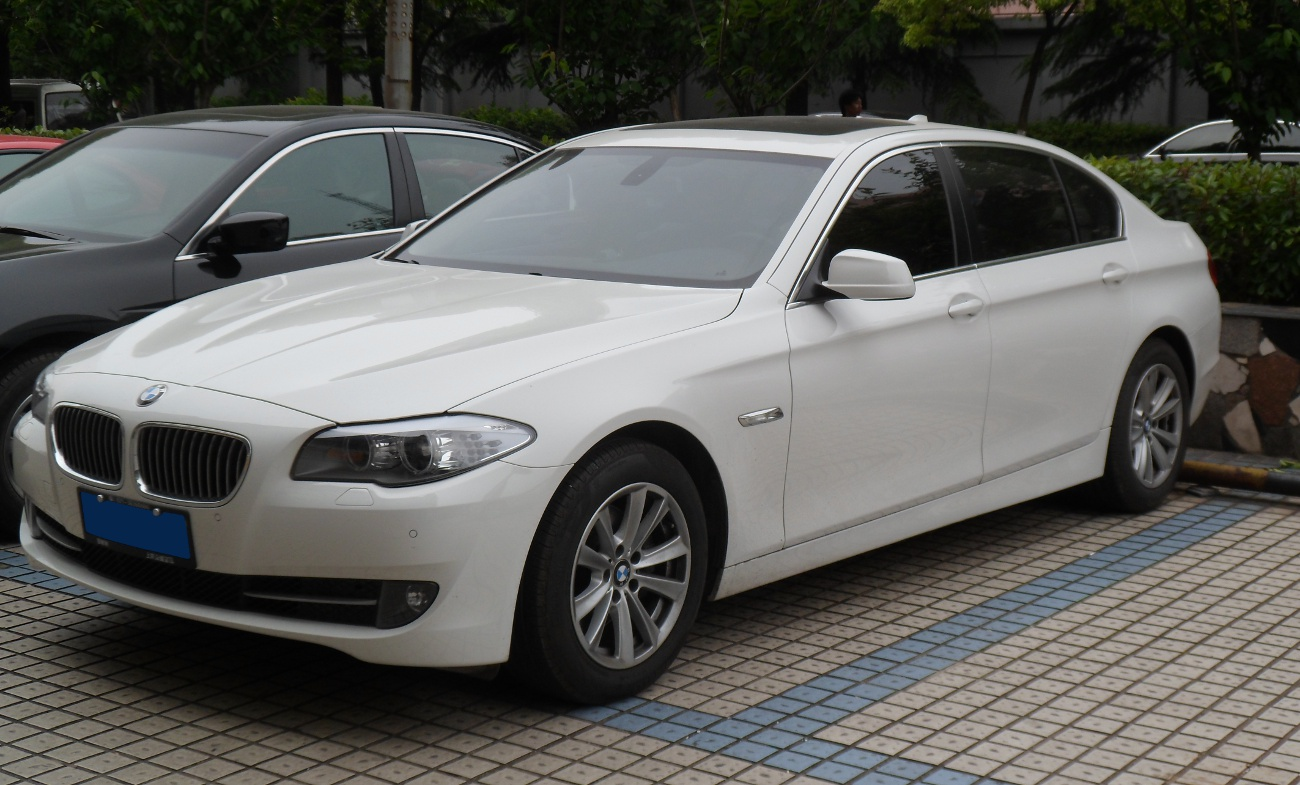 BMW 5-Series F18 Li photographed in Shanghai, China.